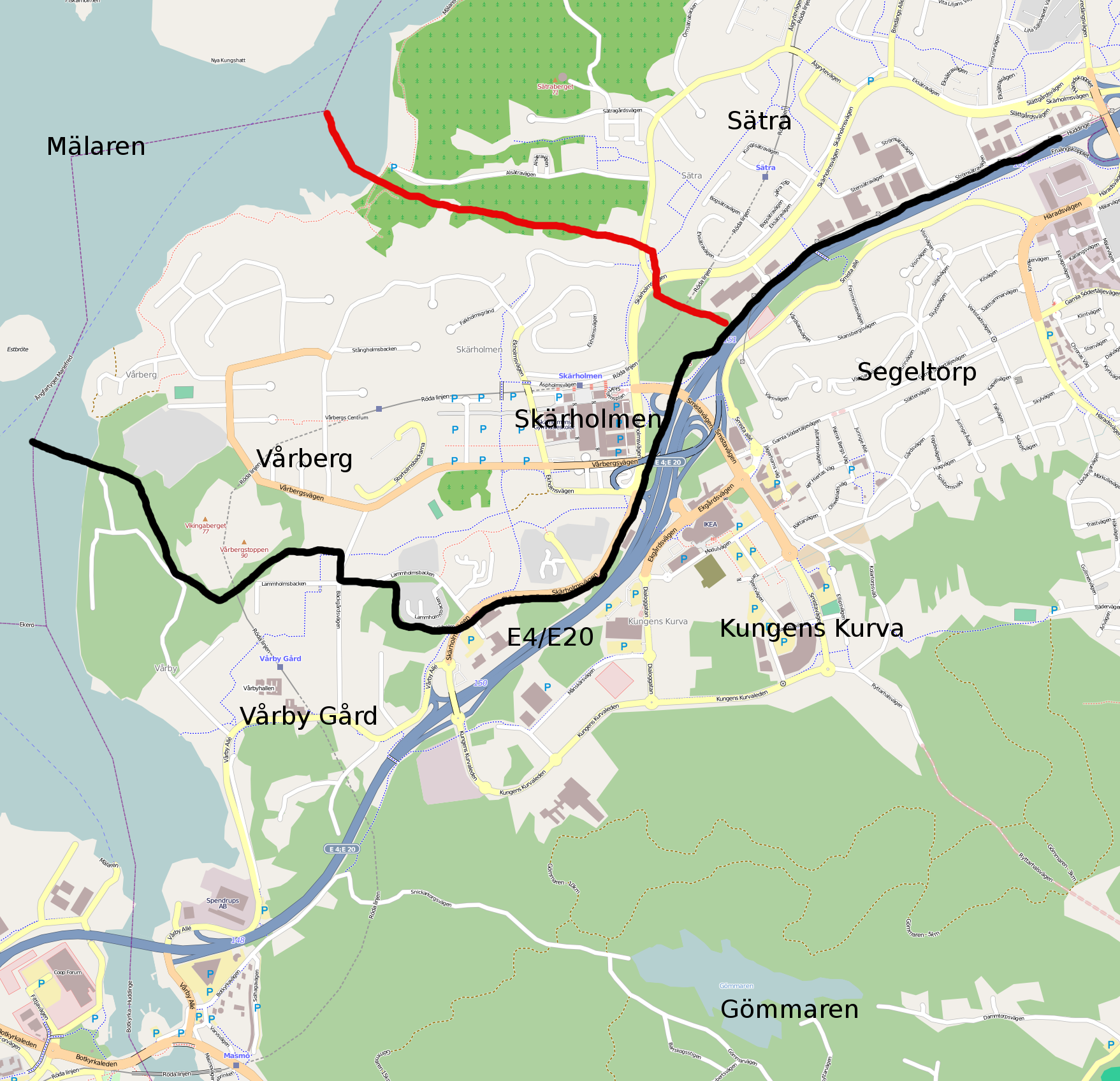 Southwest part of Stockholm municipality. Black line is current borde to Huddinge municipality. Red line is the old borde between Huddinge and Stockholm before 1961